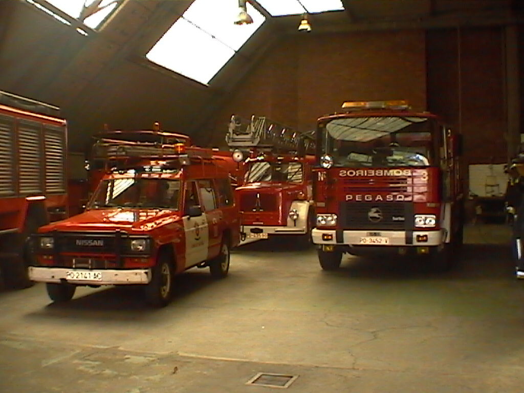 Fire station of Balaidos, Vigo, Spain. Nissan and Pegaso fire engine with "BOMBEIROS" in mirror writing ("SORIEBMOB").